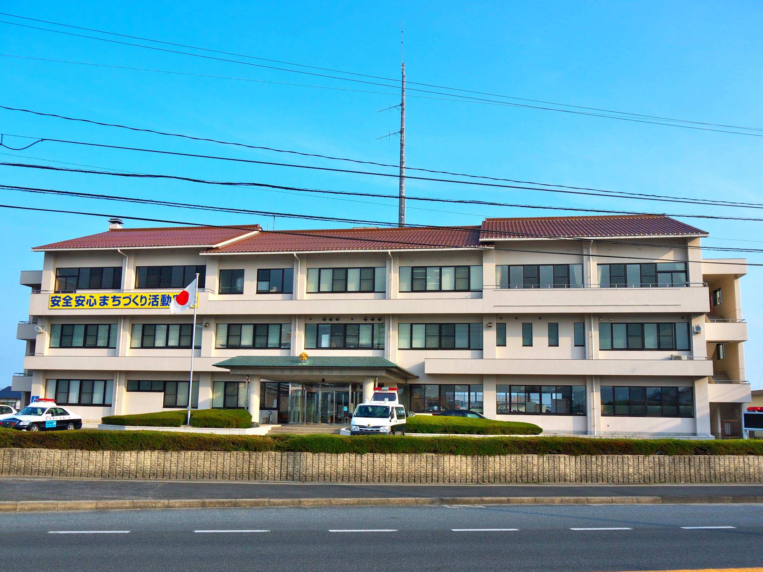 Yasugi police station, Yasugi, Shimane